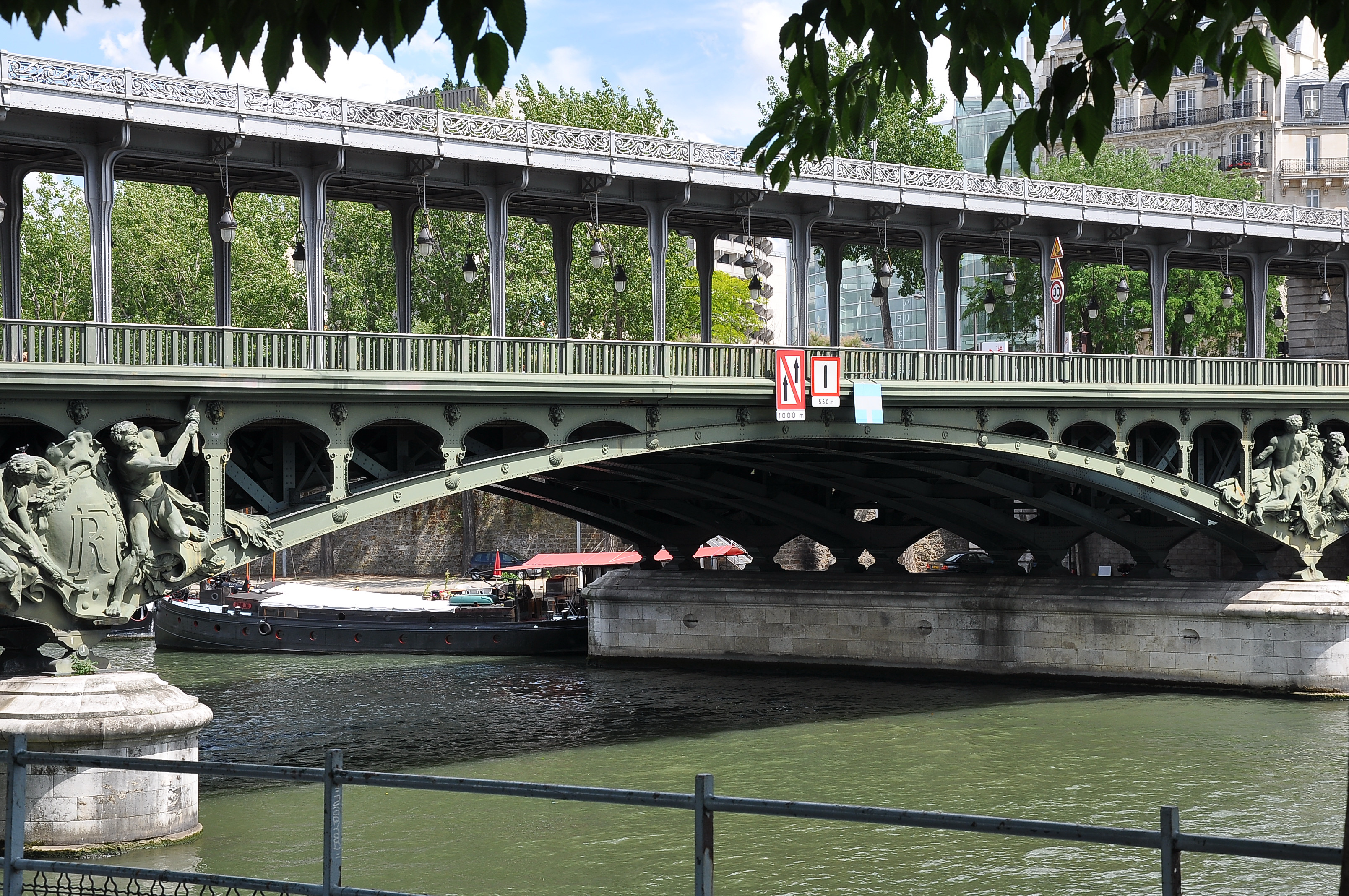 The Pont de Bir-Hakeim, formerly the Viaduc de Passy, is a bridge that crosses the Seine River in Paris, France. It connects the city's 15th and 16th arrondissements, and passes through the île aux Cygnes. Two groups in cast iron sculptured by Gustave Michel decorate piles in masonry. .